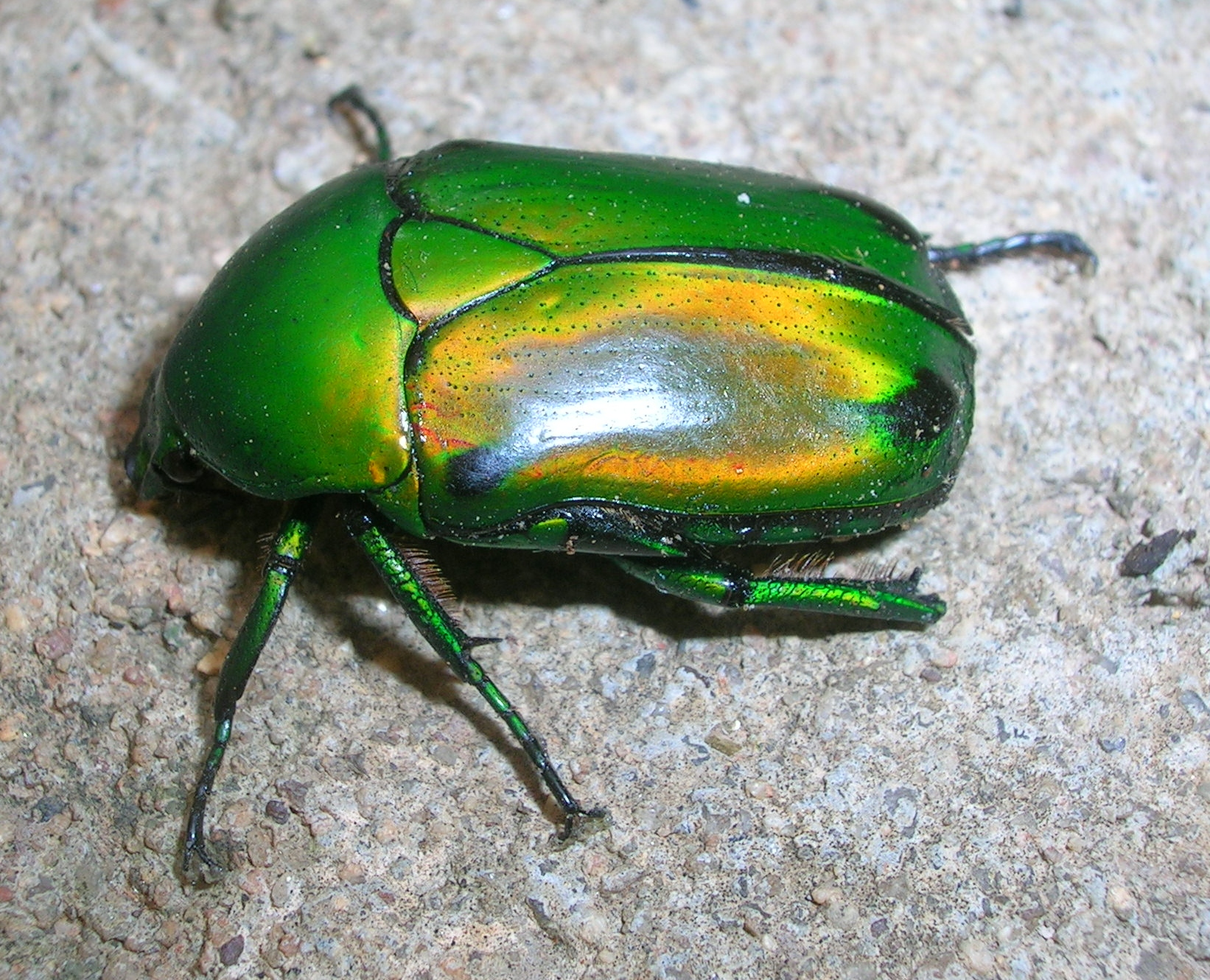 Heterorrhina elegans Cetoniinae, Scarabaeidae from Bangalore, India. Determination courtesy of Shankara Murthy, Systematics Lab, Entomology Department, University of Agricultural Sciences, Bangalore